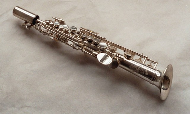 sopranissimo or soprillo saxophone